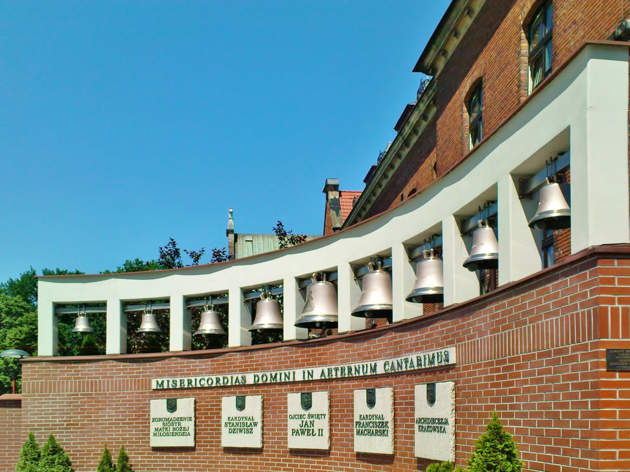 Kraków Łagiewniki - carillon in the sanctuary of Divine Mercy